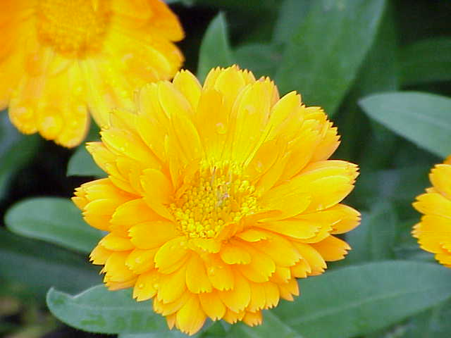 Species: Calendula officinalis Family: Compositae Image No. 2